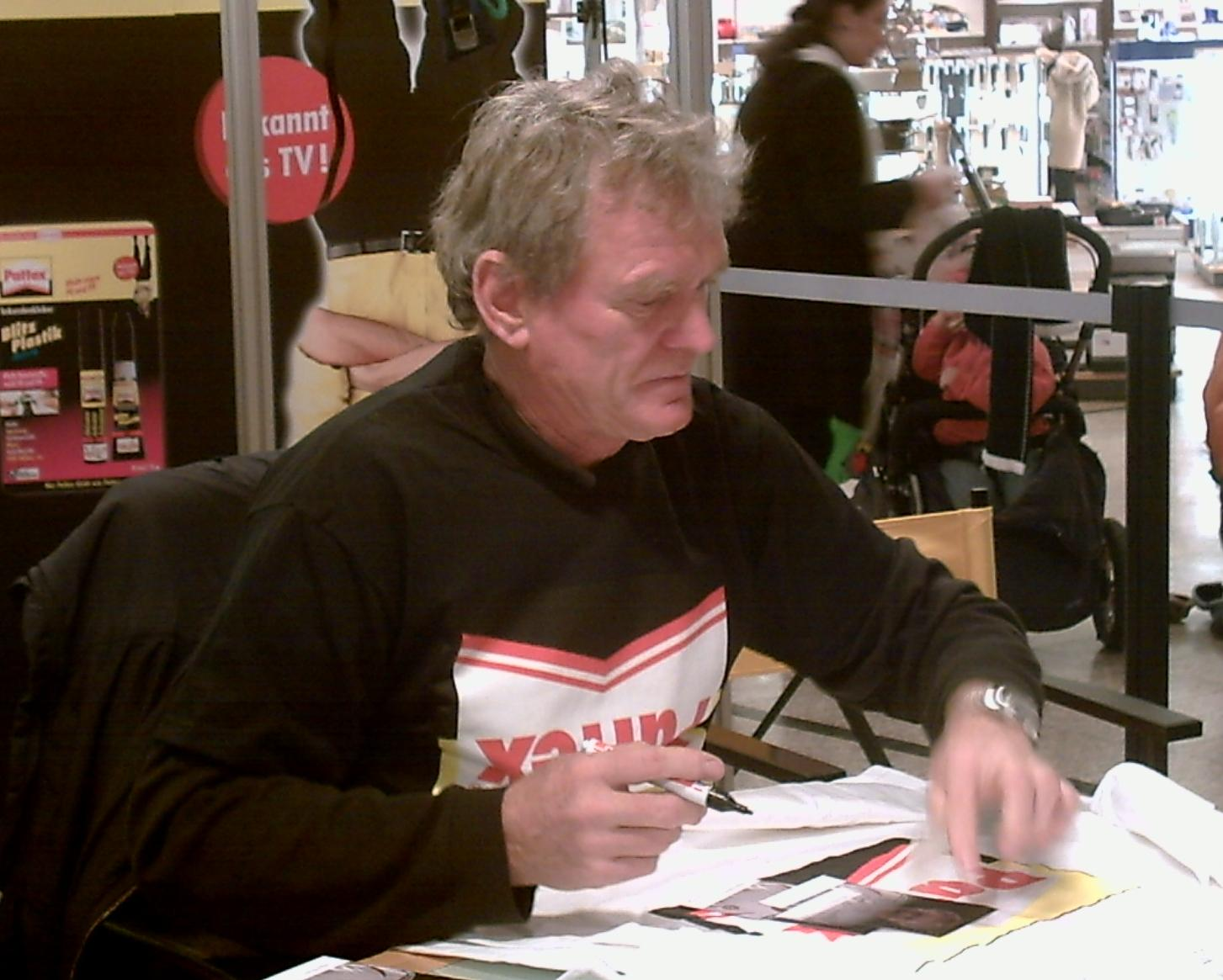 The cat from Anzing Sepp Maier at a promotional show in karstadt Bremen , Feb. 2007